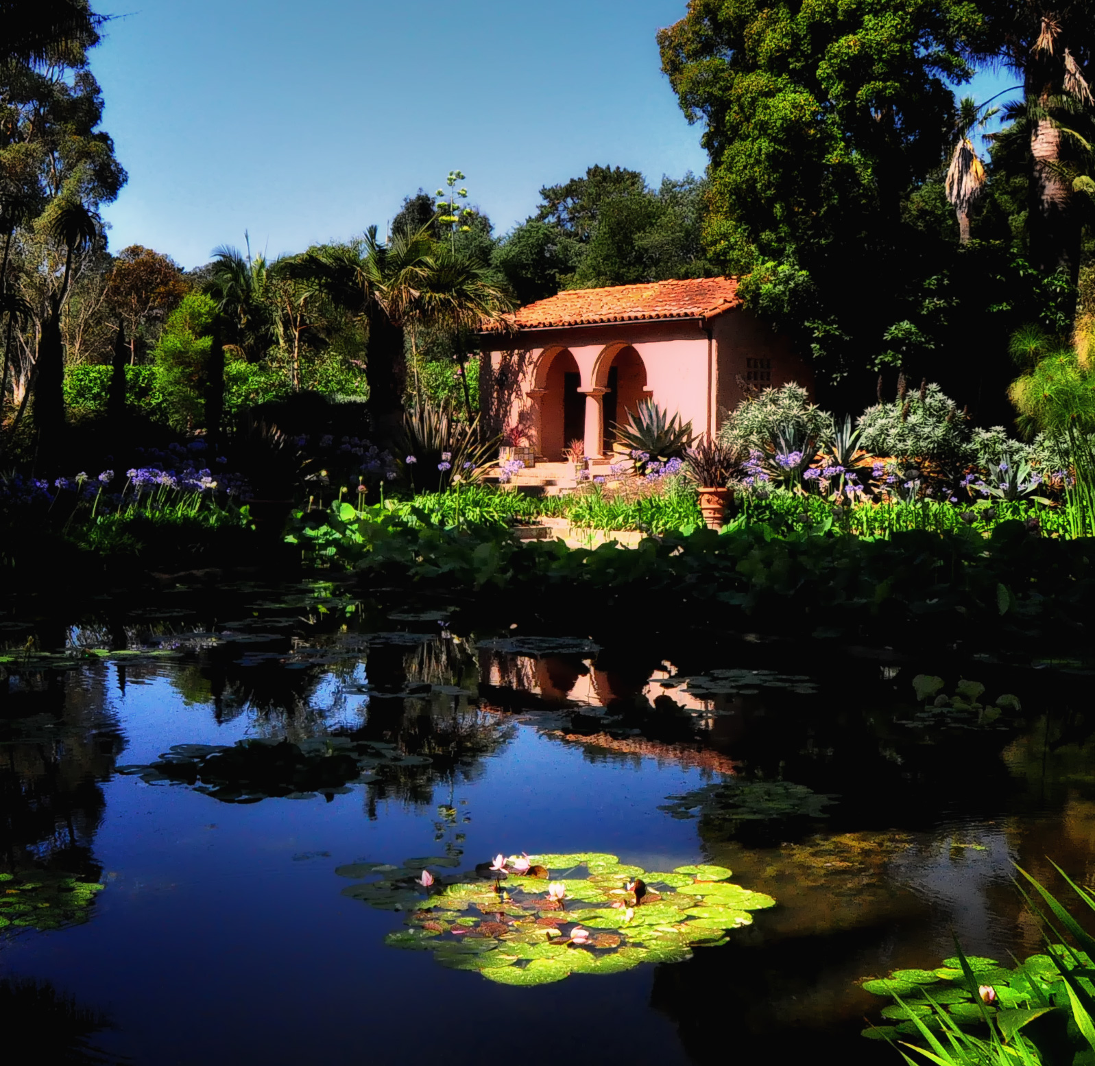 The 'Water Garden' of Lotusland — historic garden estate in Montecito, near Santa Barbara in southern California. With the 1920s pool house across the ornamental pond. : Water Garden.